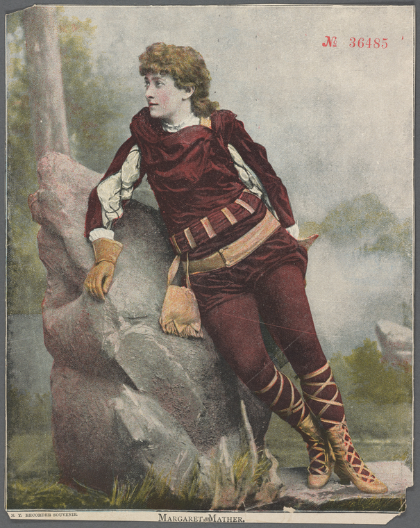 Margaret Mather from the the Billy Rose Theatre Division of The New York Public Library